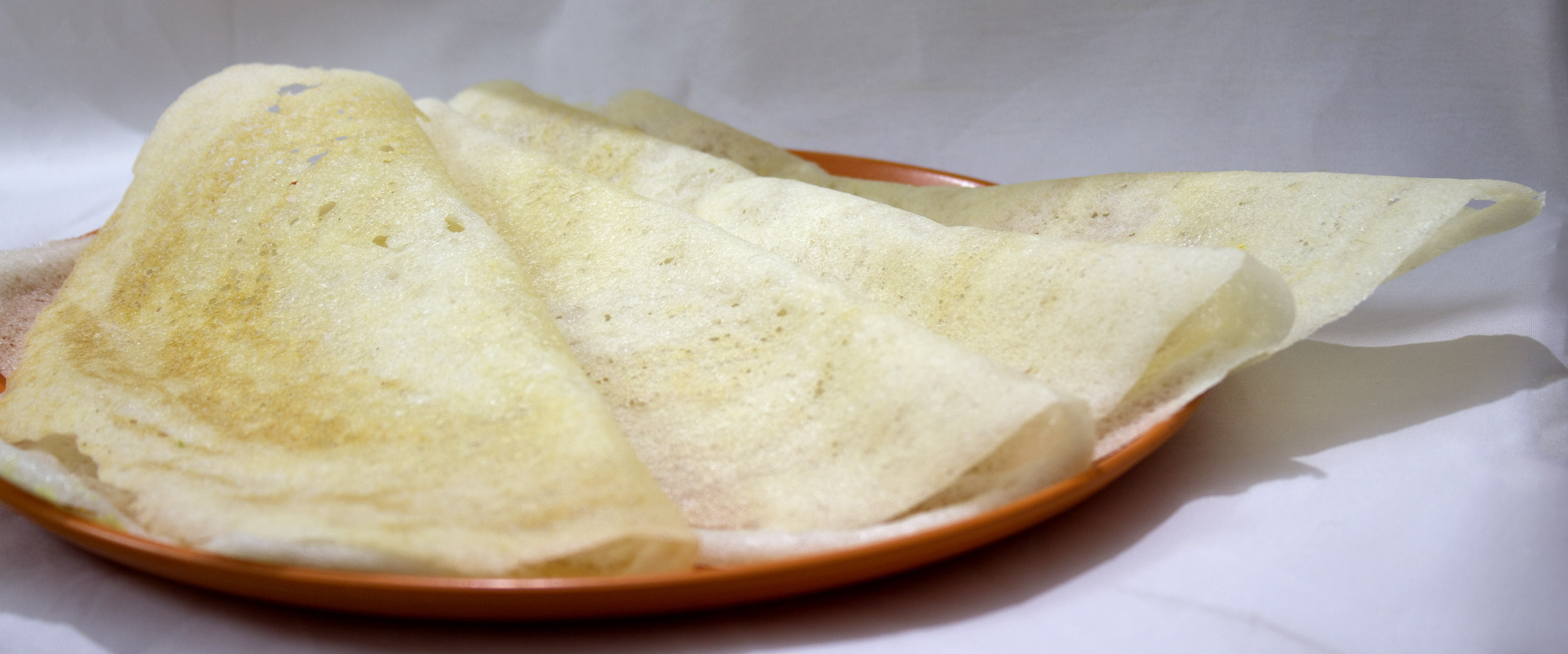 South Indian main course